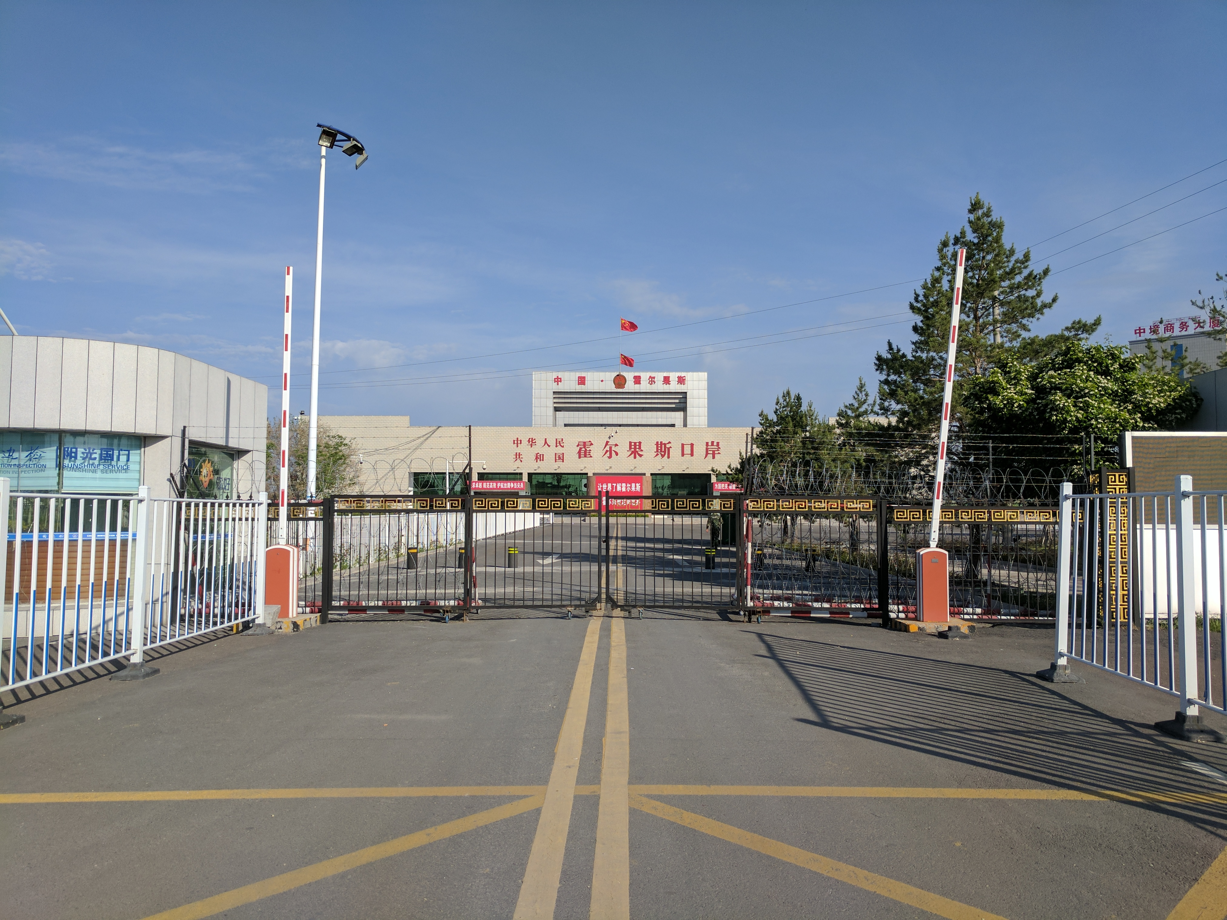 Khorgas border gate between China and Kazakhstan from the Chinese side